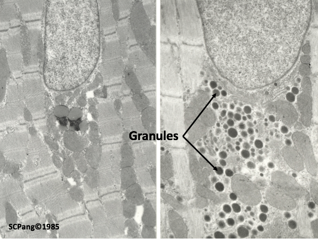 Dr. Pang captured this image illustrating the storage location of ANP granules in a mouse model.